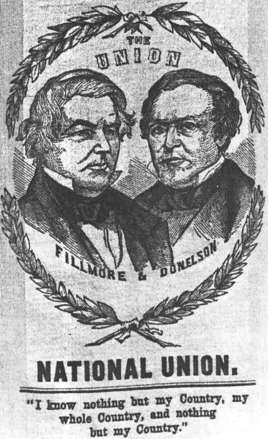 United States political poster for American (Known Nothing) party